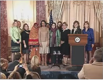 Secretary Rice announces recipients of the 2nd annual International Women of Courage awards, in the Benjamin Franklin Room of the State Department 2008. (l-r) Andrea Bottner, senior coordinator, Office of International Women's Issues; Virisila Buadromo of Fiji; Valdete Idrizi of Kosovo; Farhiyo Farah Ibrahim of Somalia; Secretary of State Condoleezza Rice; Dr. Begum Jan of Pakistan (behind Secretary Rice); Suraya Pakzad of Afghanistan; Nibal Thawabteh of Palestine (behind Pakzad); Cynthia Bendlin of Paraguay; and Dr. Eaman Al-Gobory of Iraq. The individual in blue on the far right is an unidentified staff member.